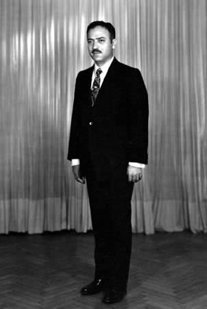 President Ahmad al-Khatib.